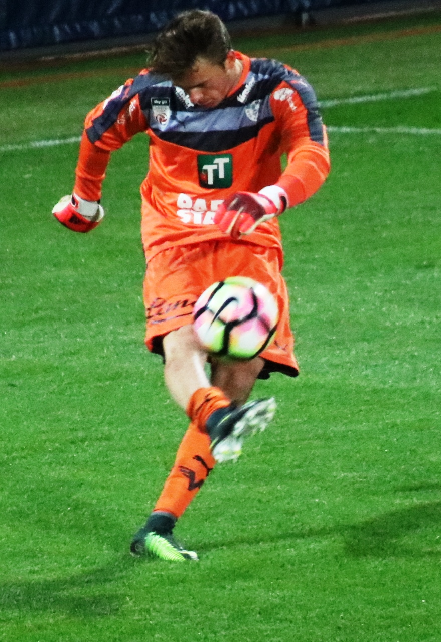 league match Austria 2nd league